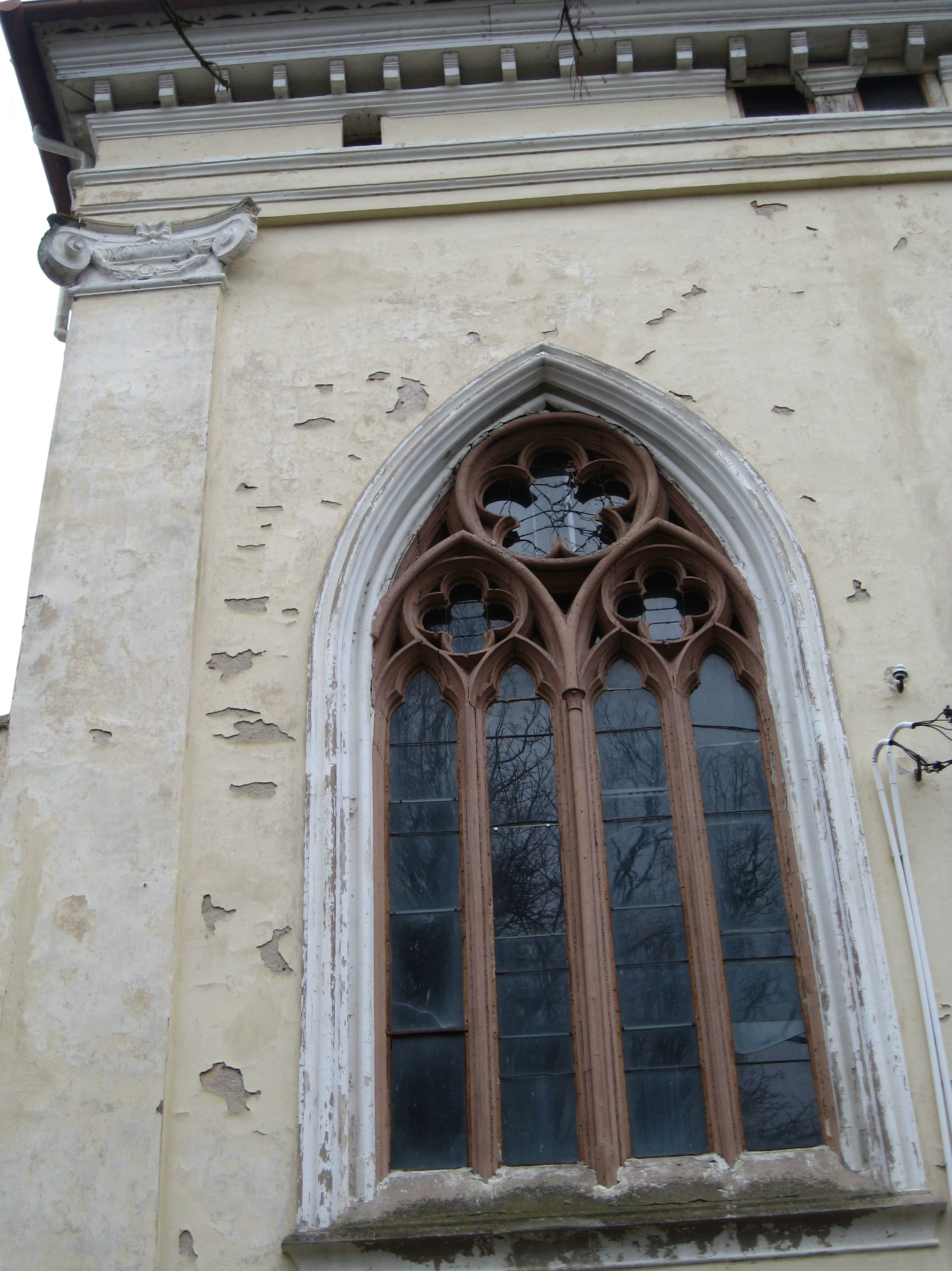 Palace w Drogosze (Groß Wolfsdorf) in Poland